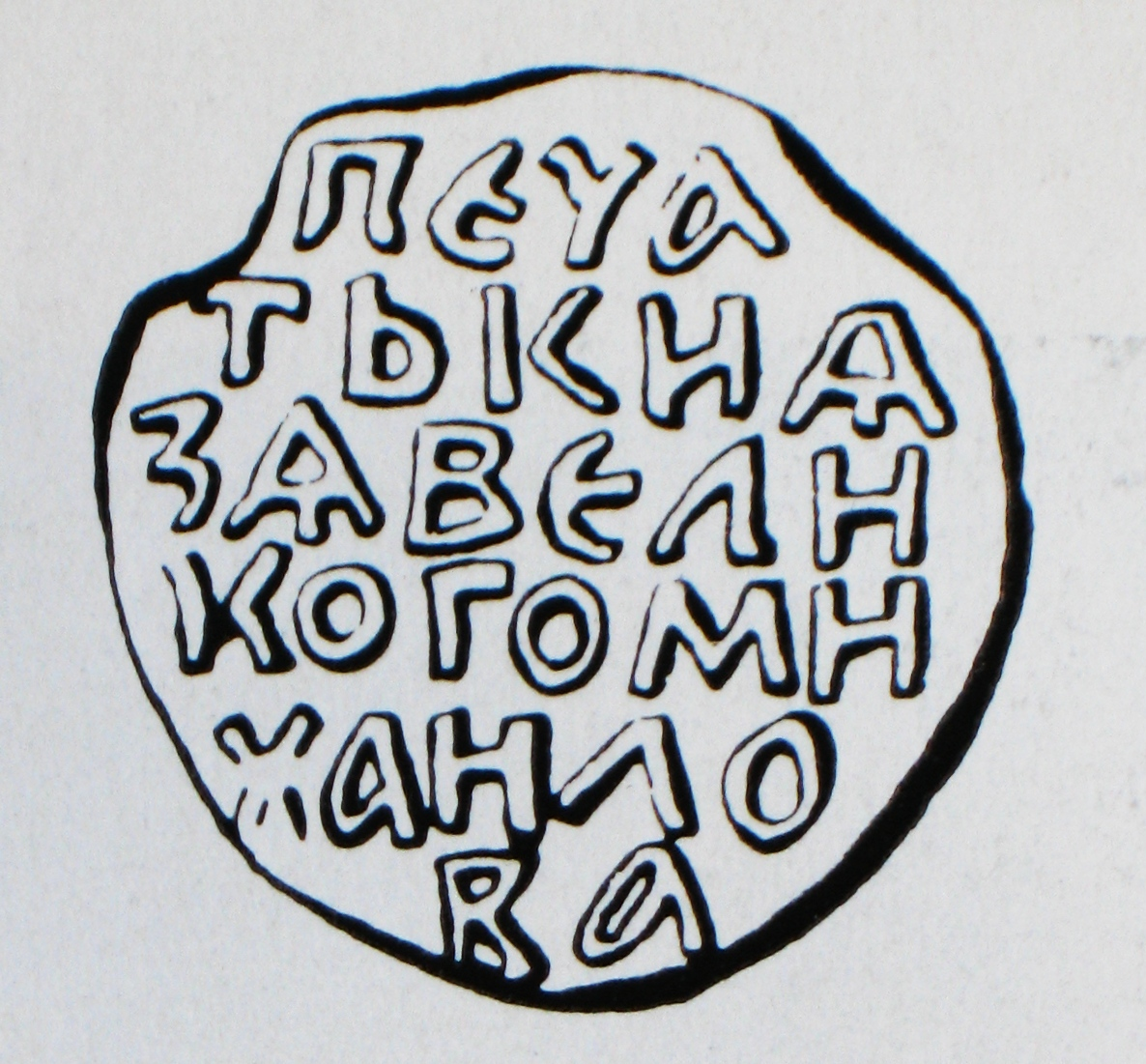 The Russian seal of Mikhail of Tver. Печать князя Михаила Александровича Тверского.